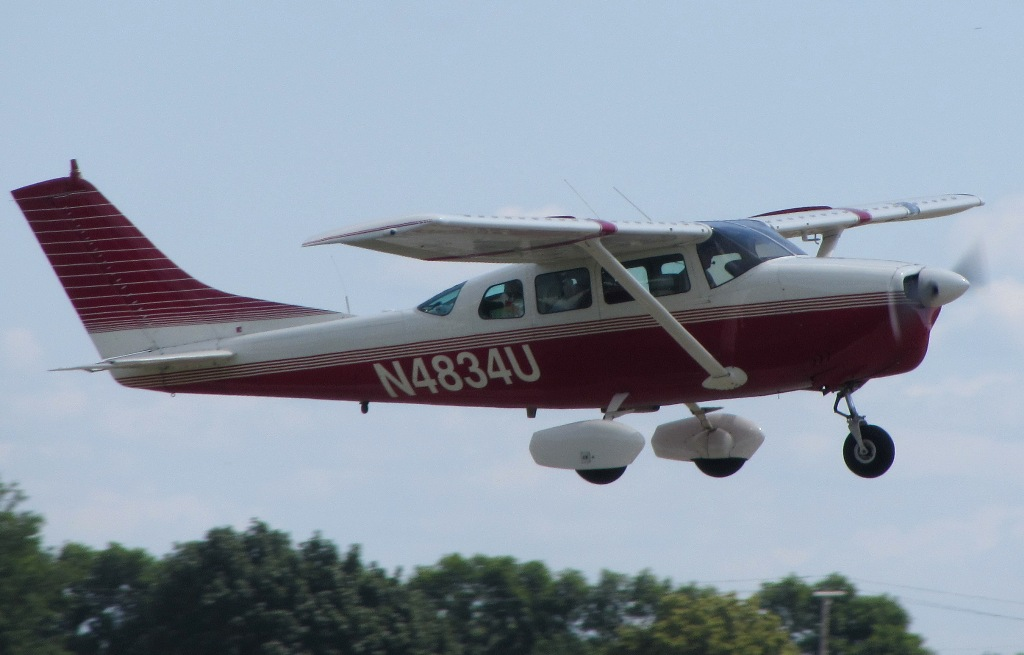 1963 Cessna 205 (210-5A)